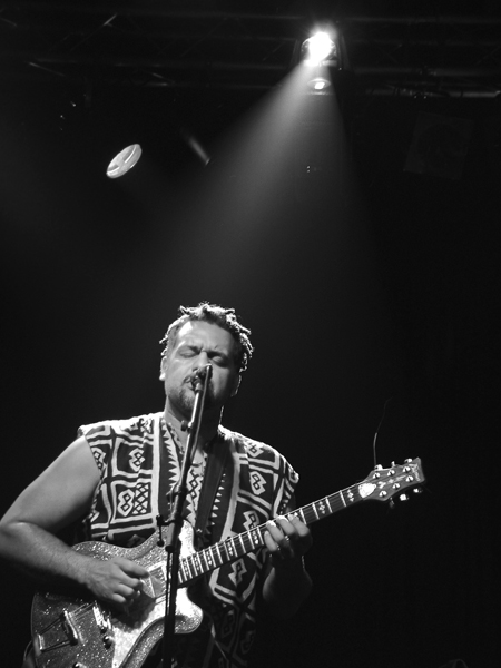 JPB in Holland